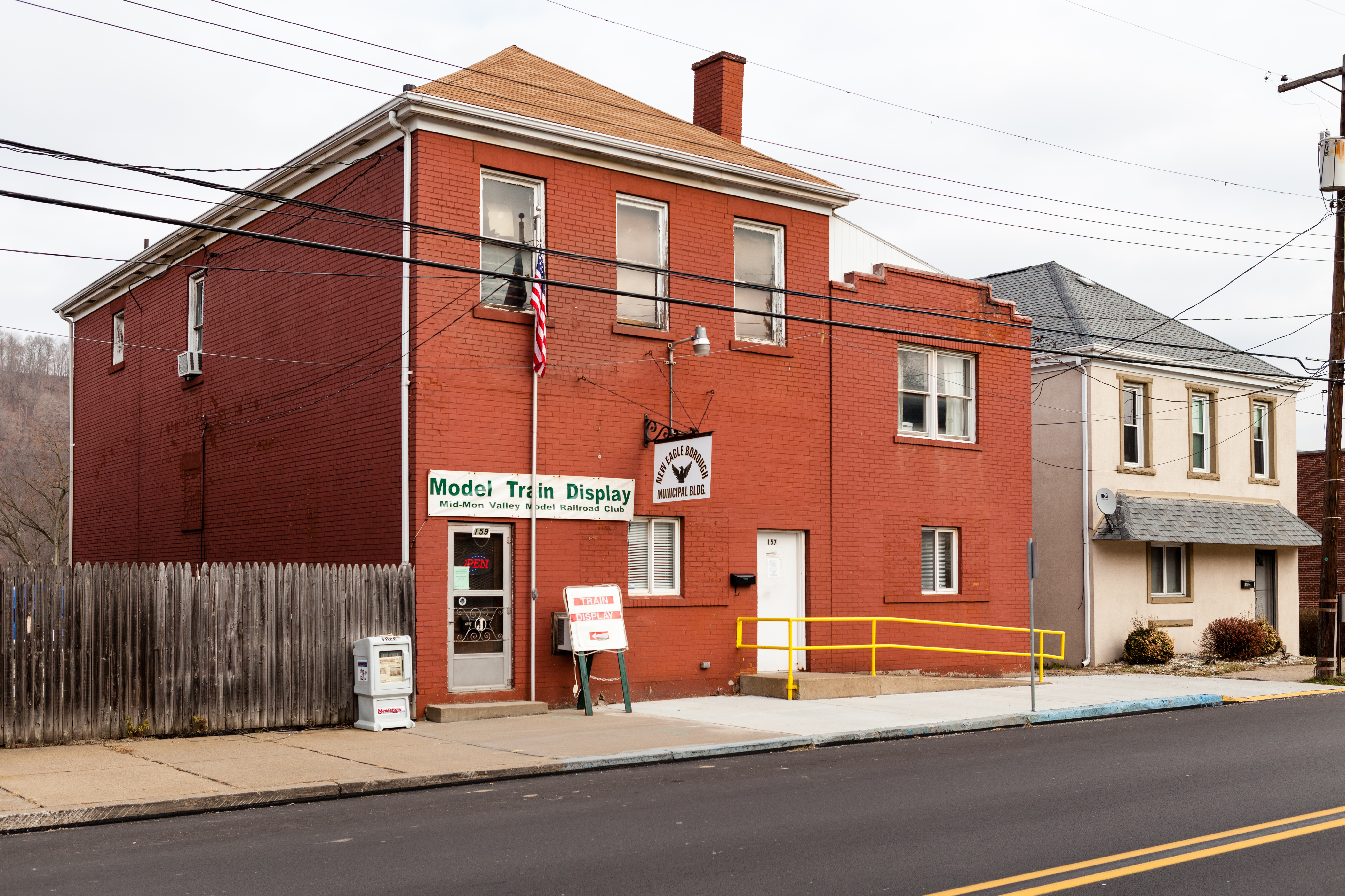 New Eagle, Pennsylvania Municipal Bldg, on Main St (PA 88).